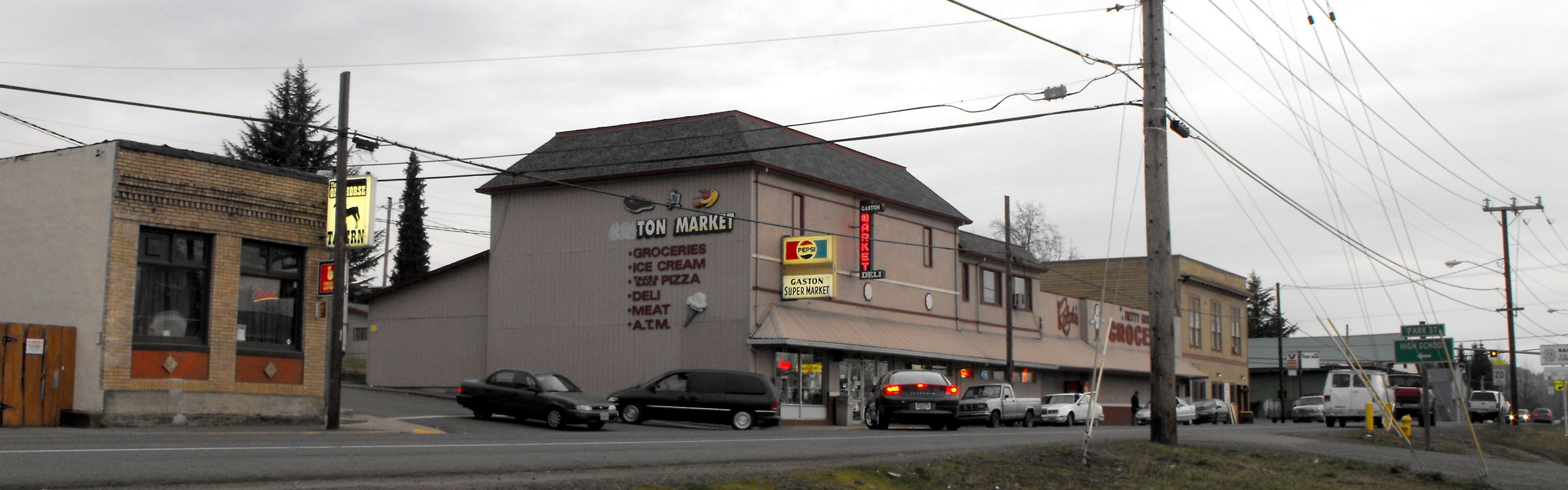 Center mall of Gaston, Oregon